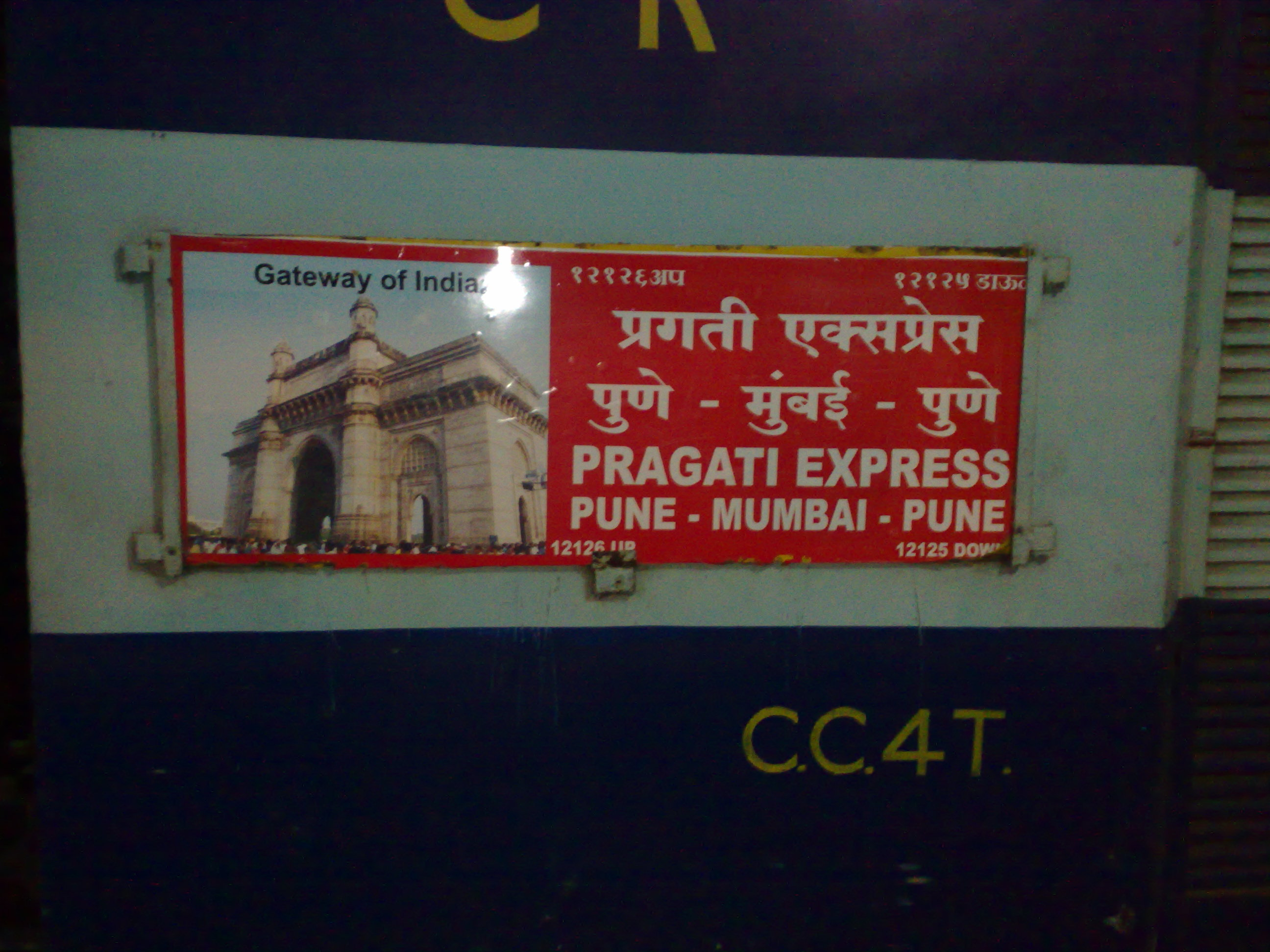 12125 Pragati Express